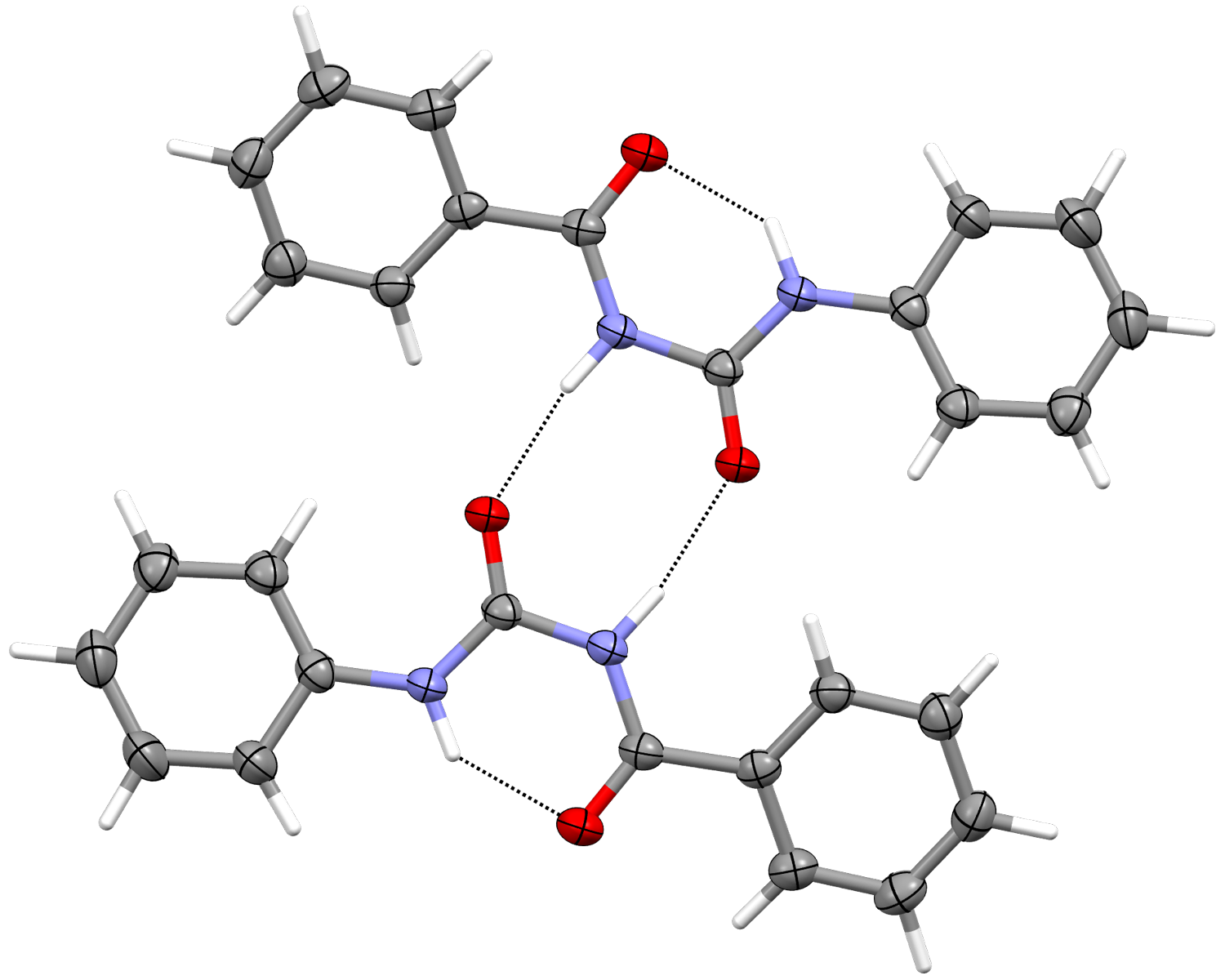 X-ray (SXD) structure for N-nenzoyl-N-phenylurea